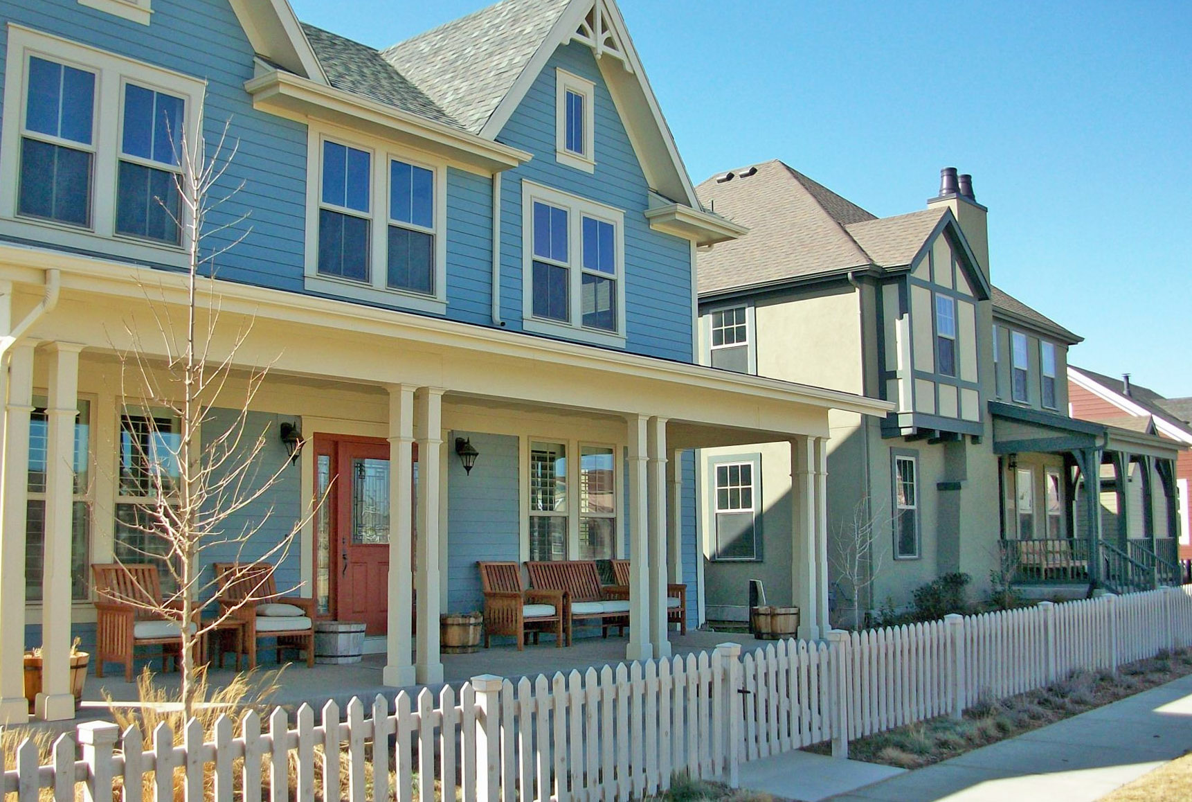 Just a sample of the different home styles offered in Daybreak